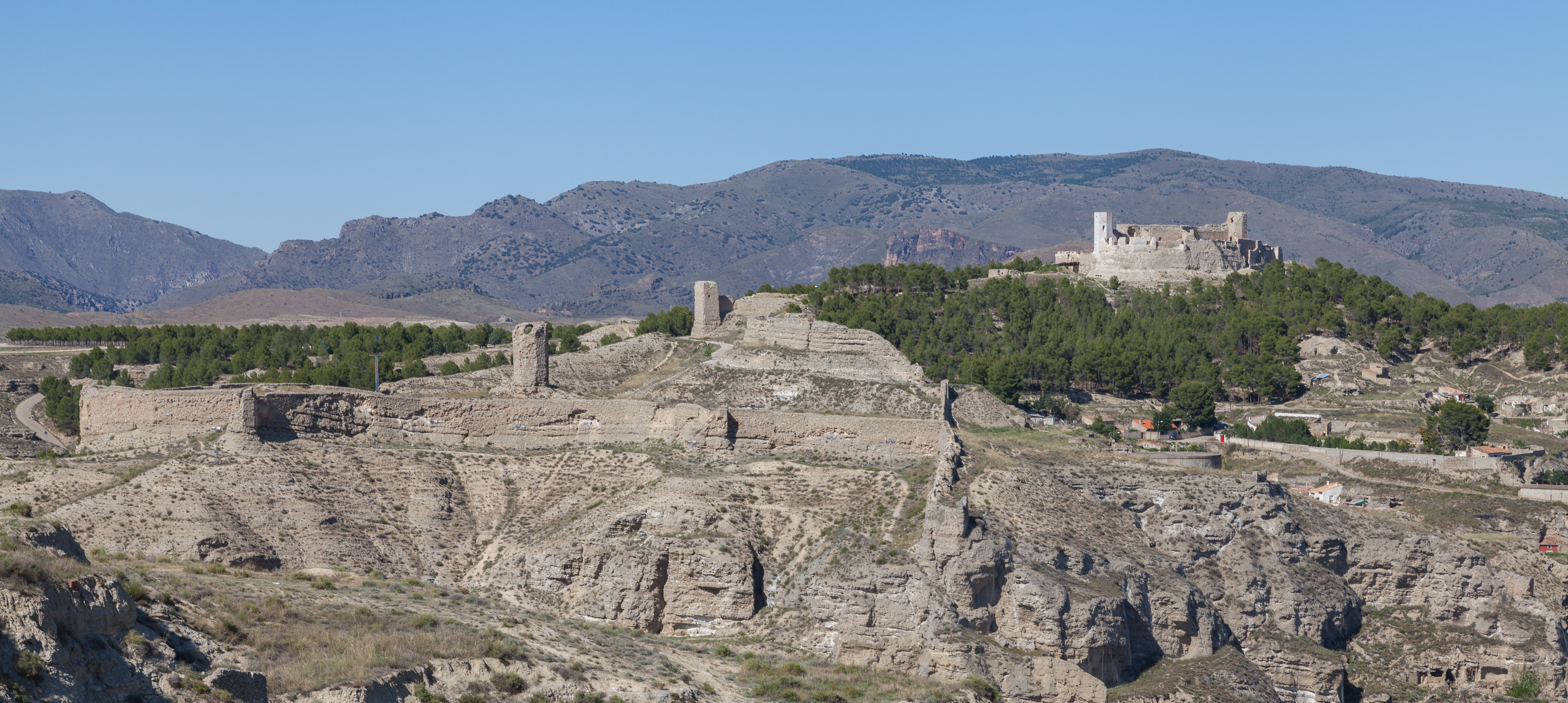 Ayyub castle, Calatayud, Aragon, Spain